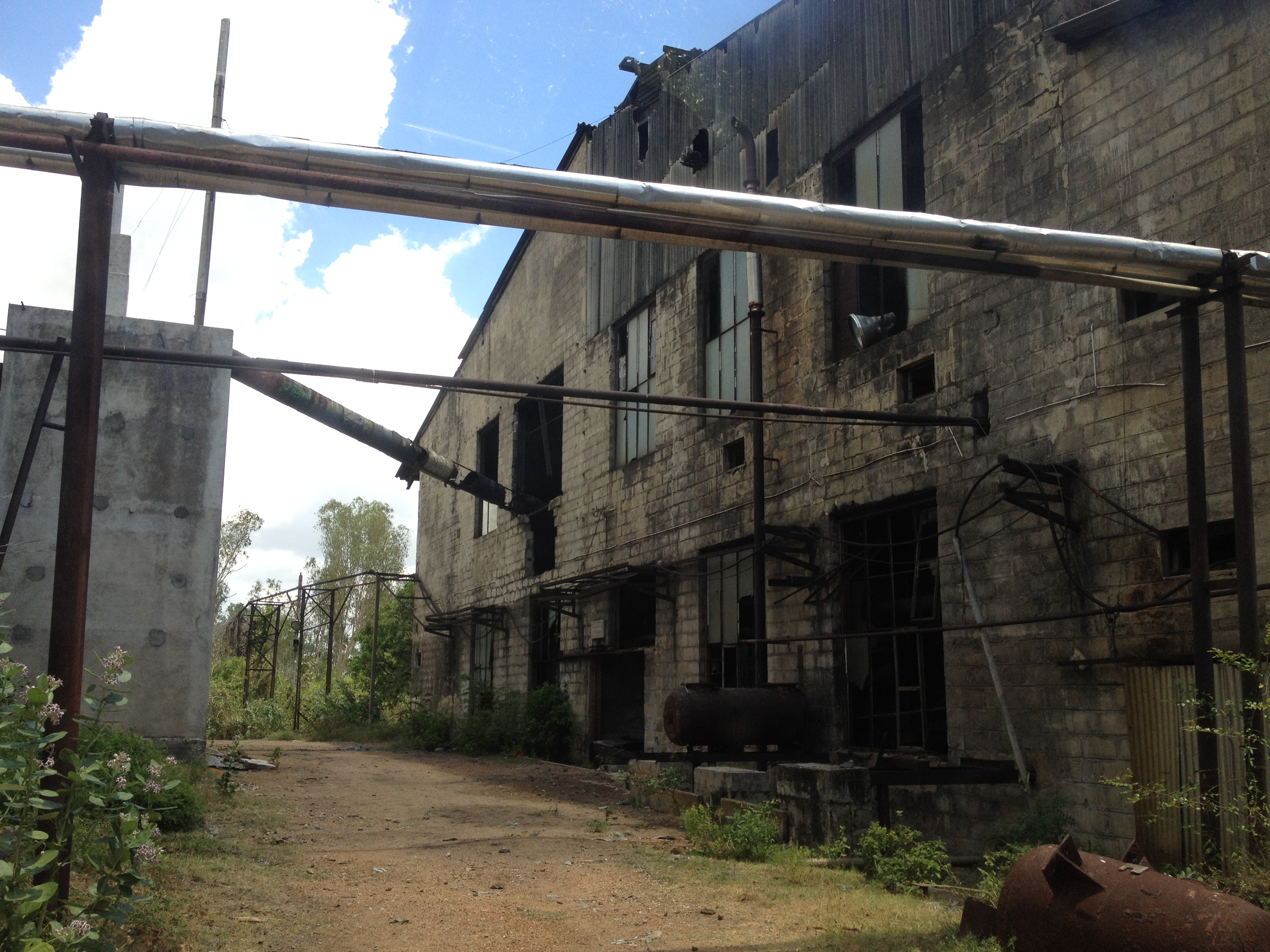 Abandoned buildings at Valaichchenai Paper Mill, Sri Lanka